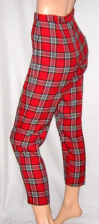 Example capri pants.